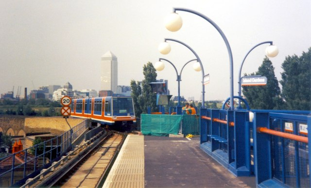 Island Gardens DLR station The first DLR station, perched on old railway goods viaducts in Millwall Park. Canary Wharf tower had been constructed, but little else is on the skyline.